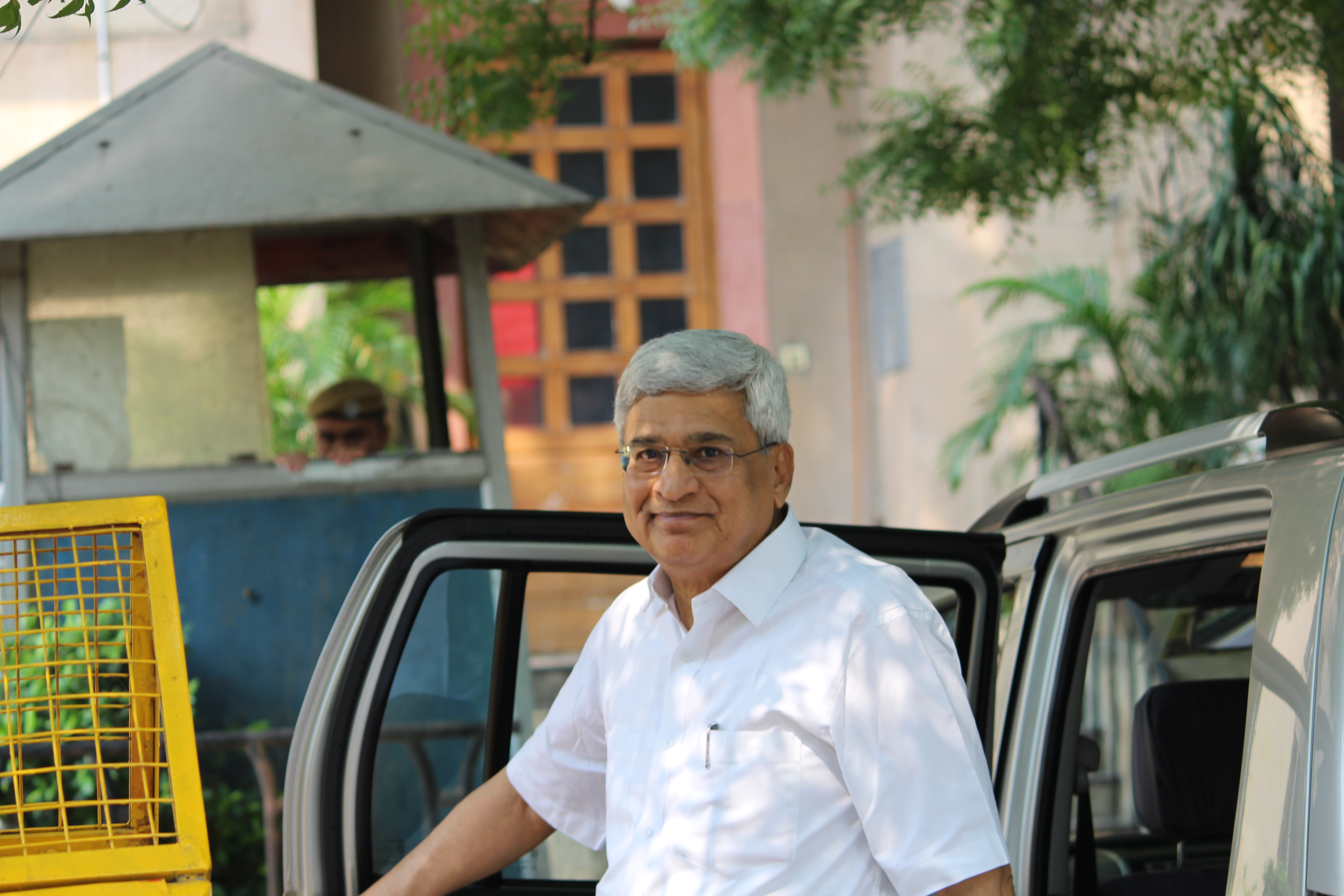 Prakash Karat